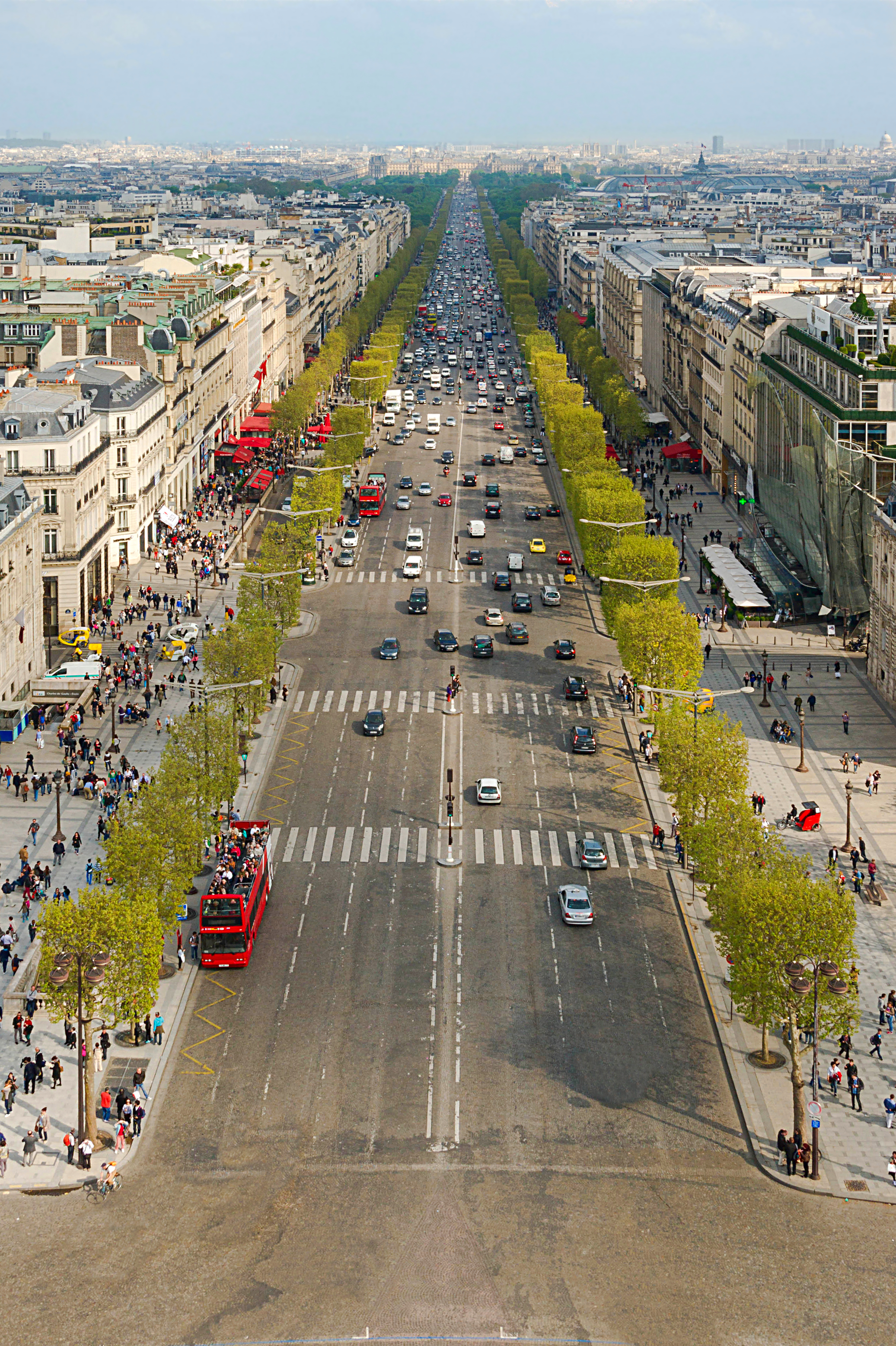 Avenue des Champs-Elysées from top of Arc de Triomphe de l'Etoile in Paris, France.